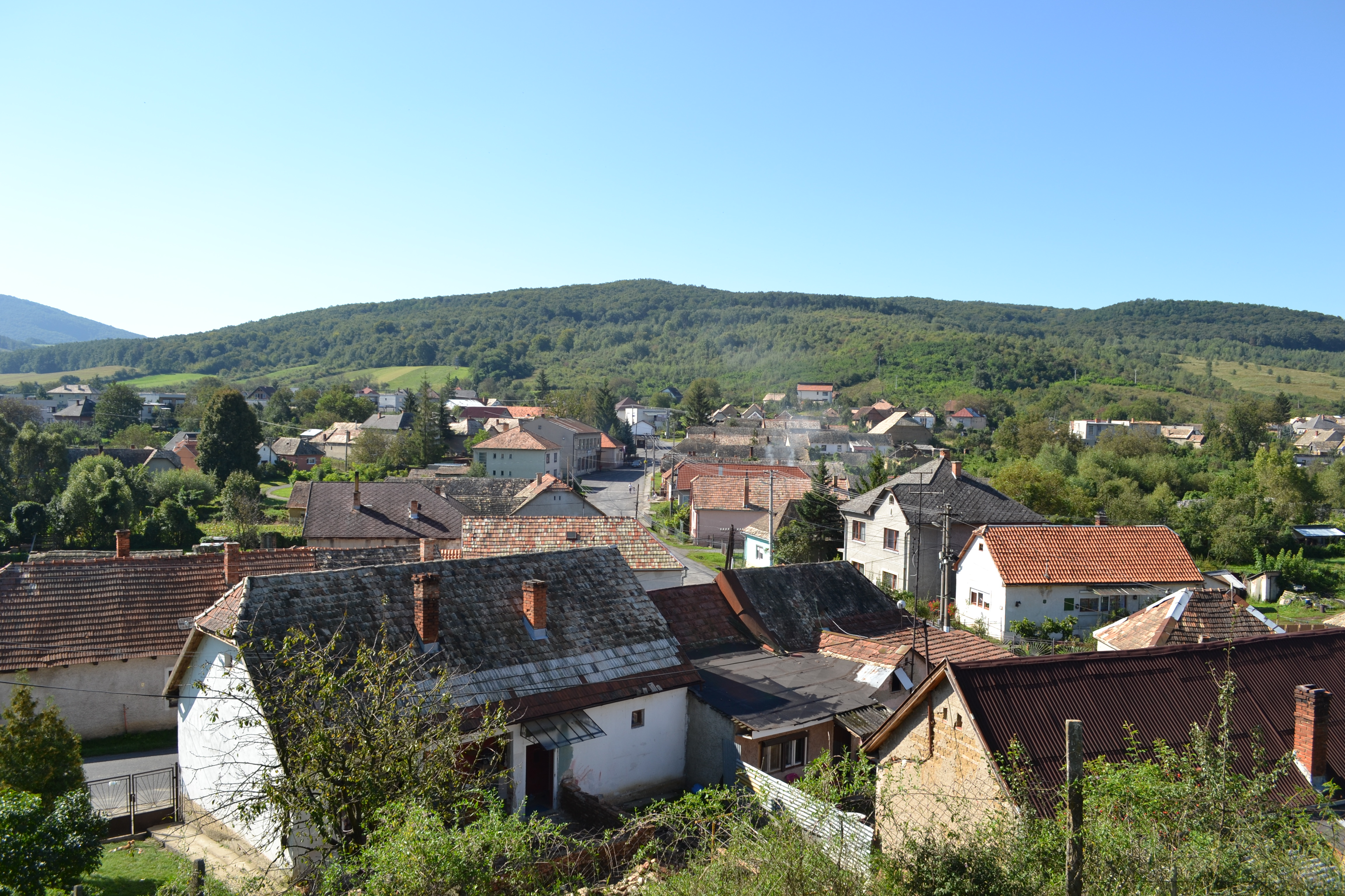 View of the village ČakanovceSlovenčina: Pohľad na obec Čakanovce